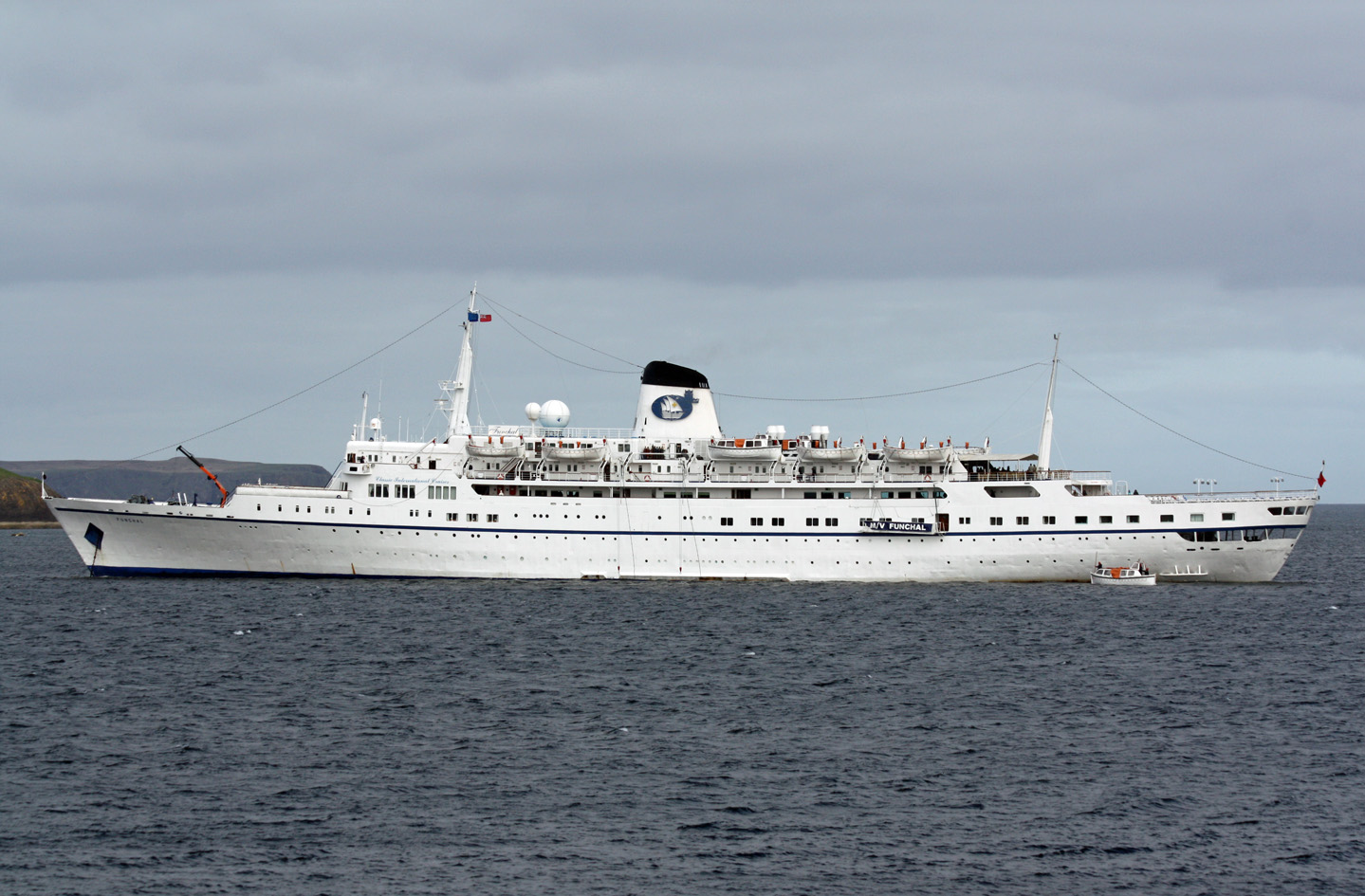 The Portuguese registered cruise ship 'Funchal' visited Stornoway today. She was built in 1961. 1082011